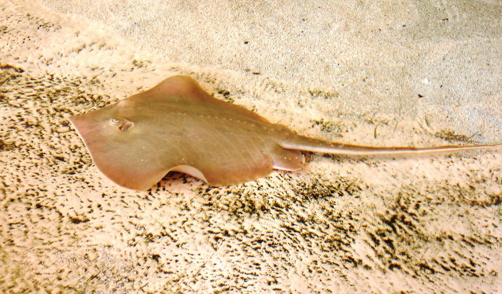 Atlantic stingray (Dasyatis sabina) at Siesta Key, Florida